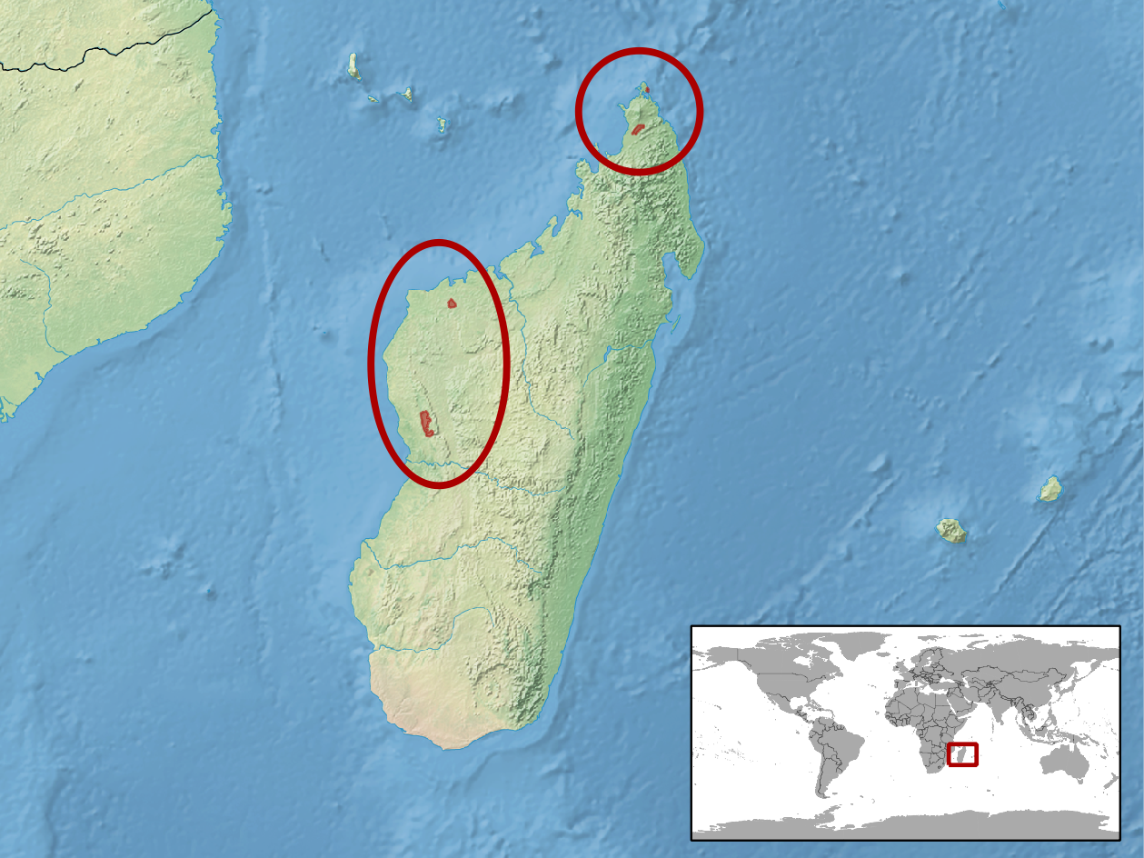 geographic distribution of Paroedura karstophila (Native: Madagascar)